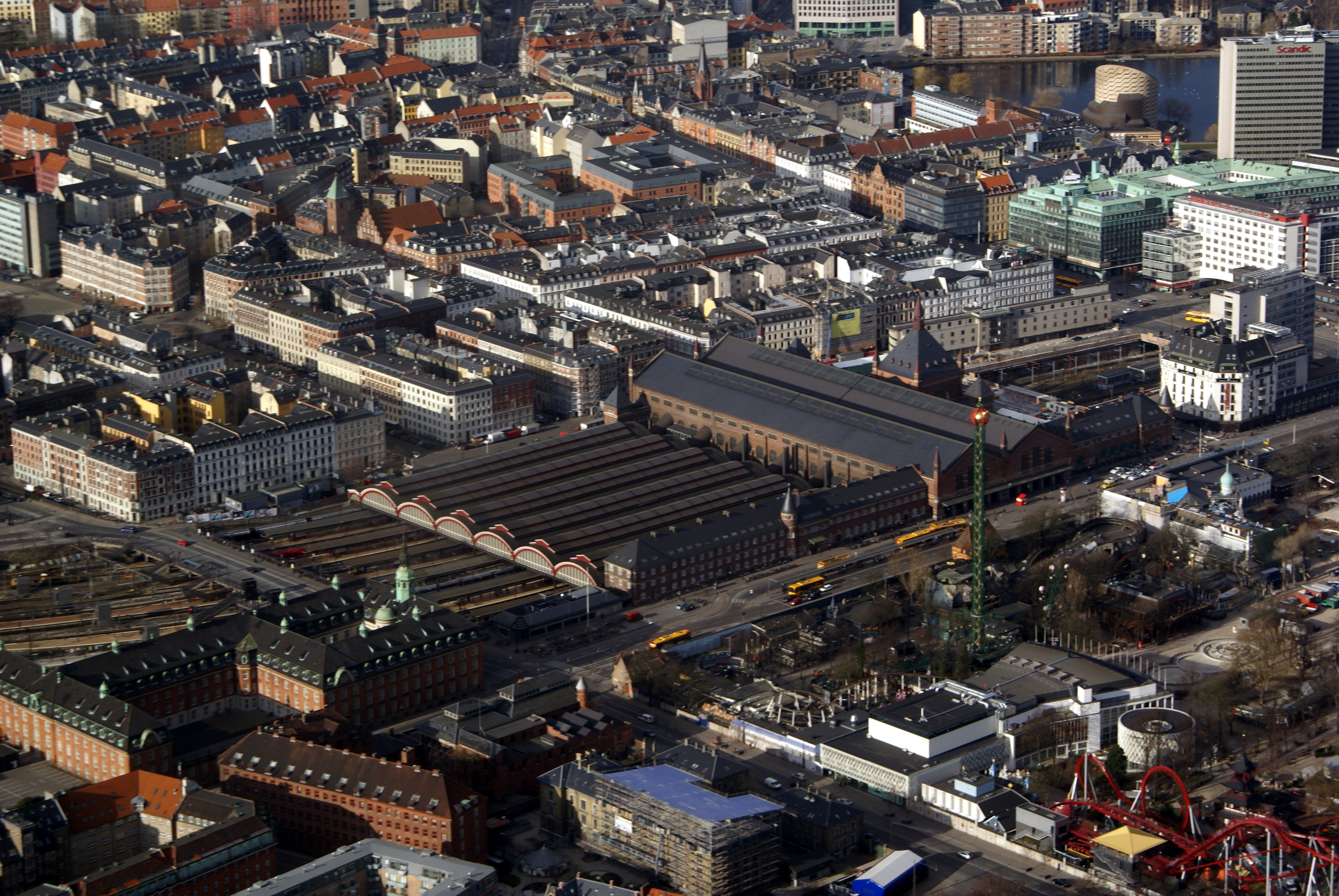 Copenhagen central station.